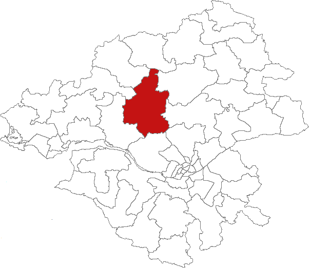 Map of canton of France : Canton de Blain, Loire-Atlantique, France